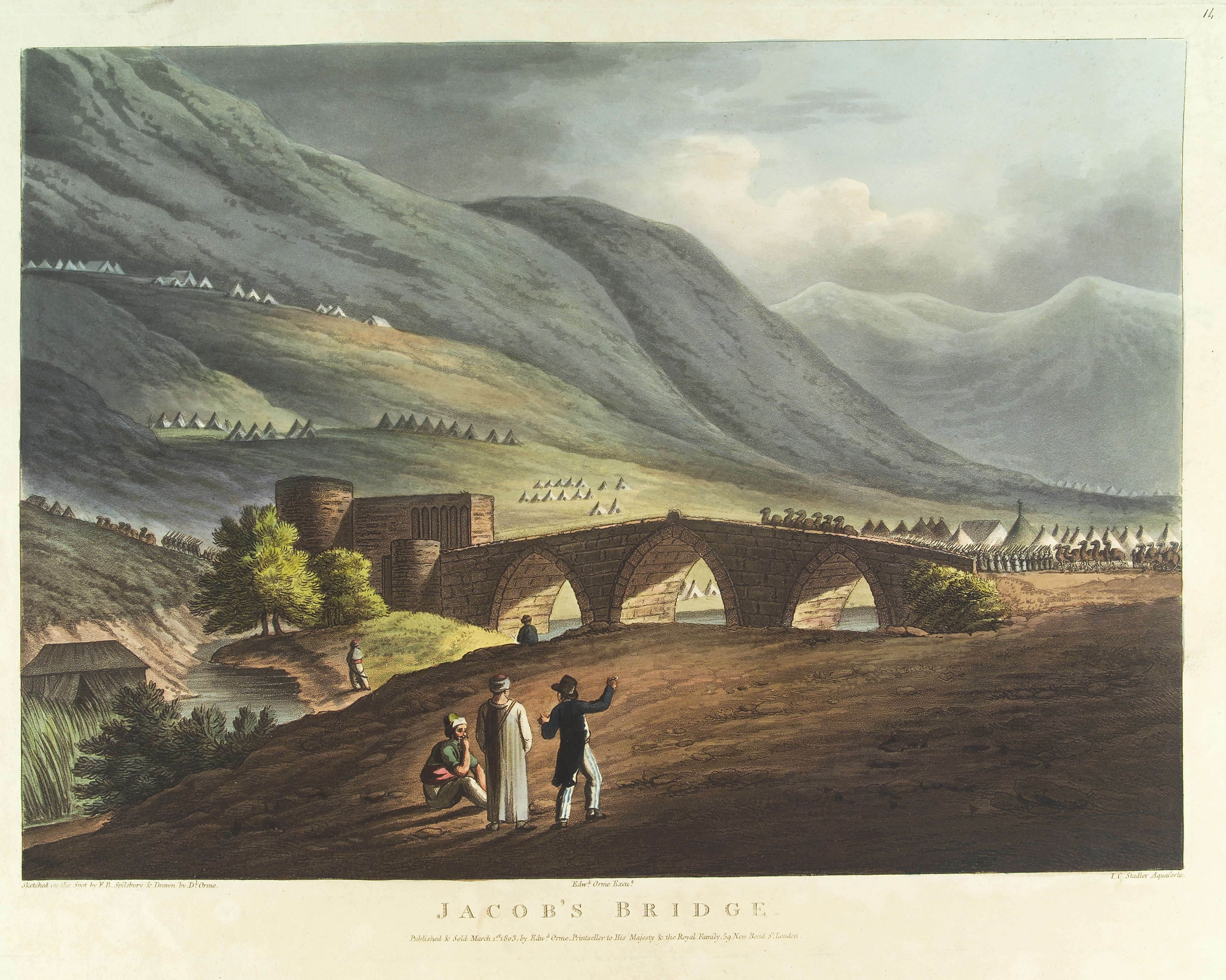 Jacob's Bridge, between the lakes of Tiberia, with the tents of the British Army pitched on the mountain side and the tents of the and the Aga of the Janisaries, c. October 1799, during the Defence of the Ottoman Empire against General Bonaparte Wellcome Images Keywords: D. Orme; Landscape; Francis. B. Spilsbury; Ottoman; War; Napoleon Bonaparte